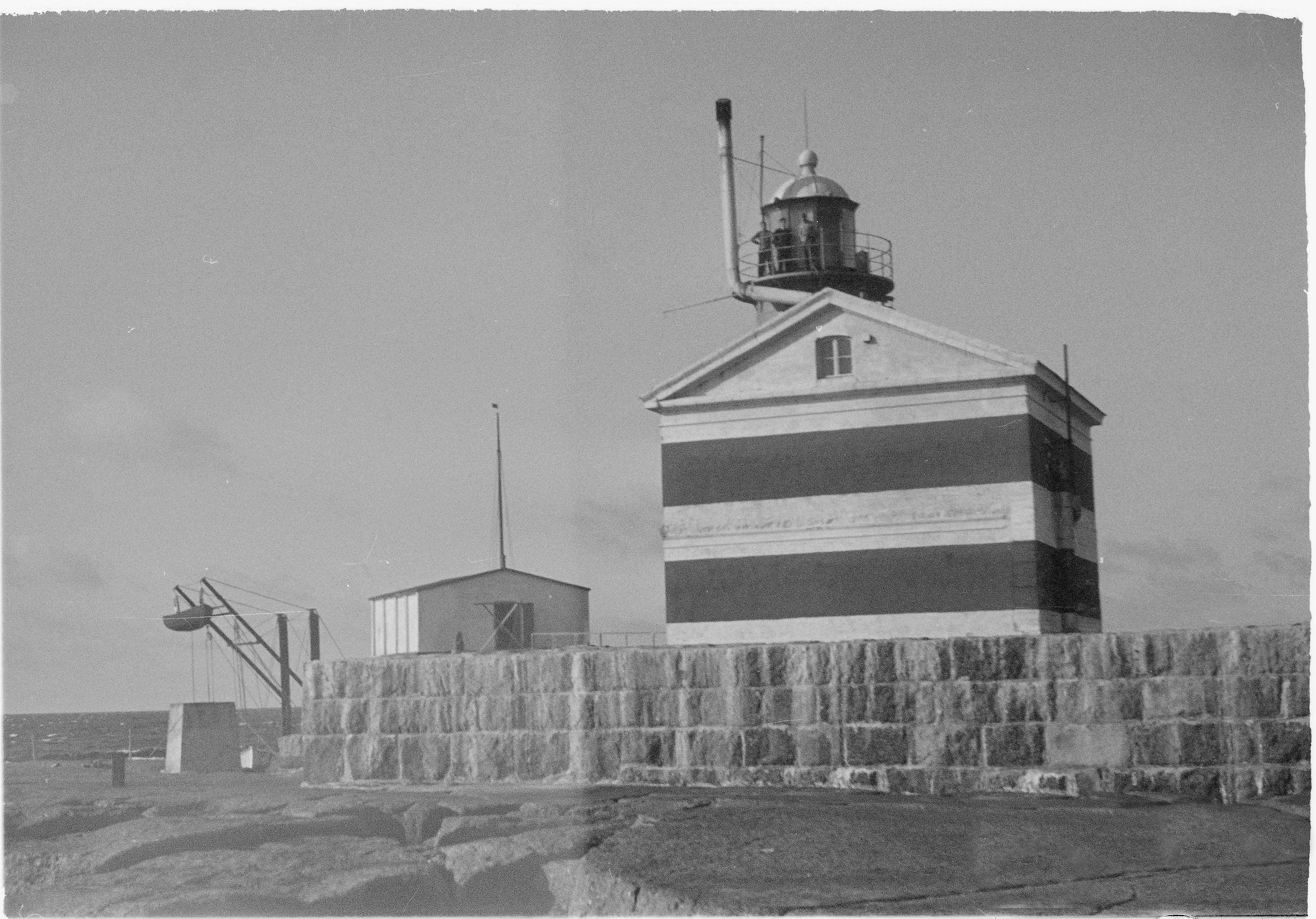 "The foothold 'Märket': The lighthouse and accommodation".